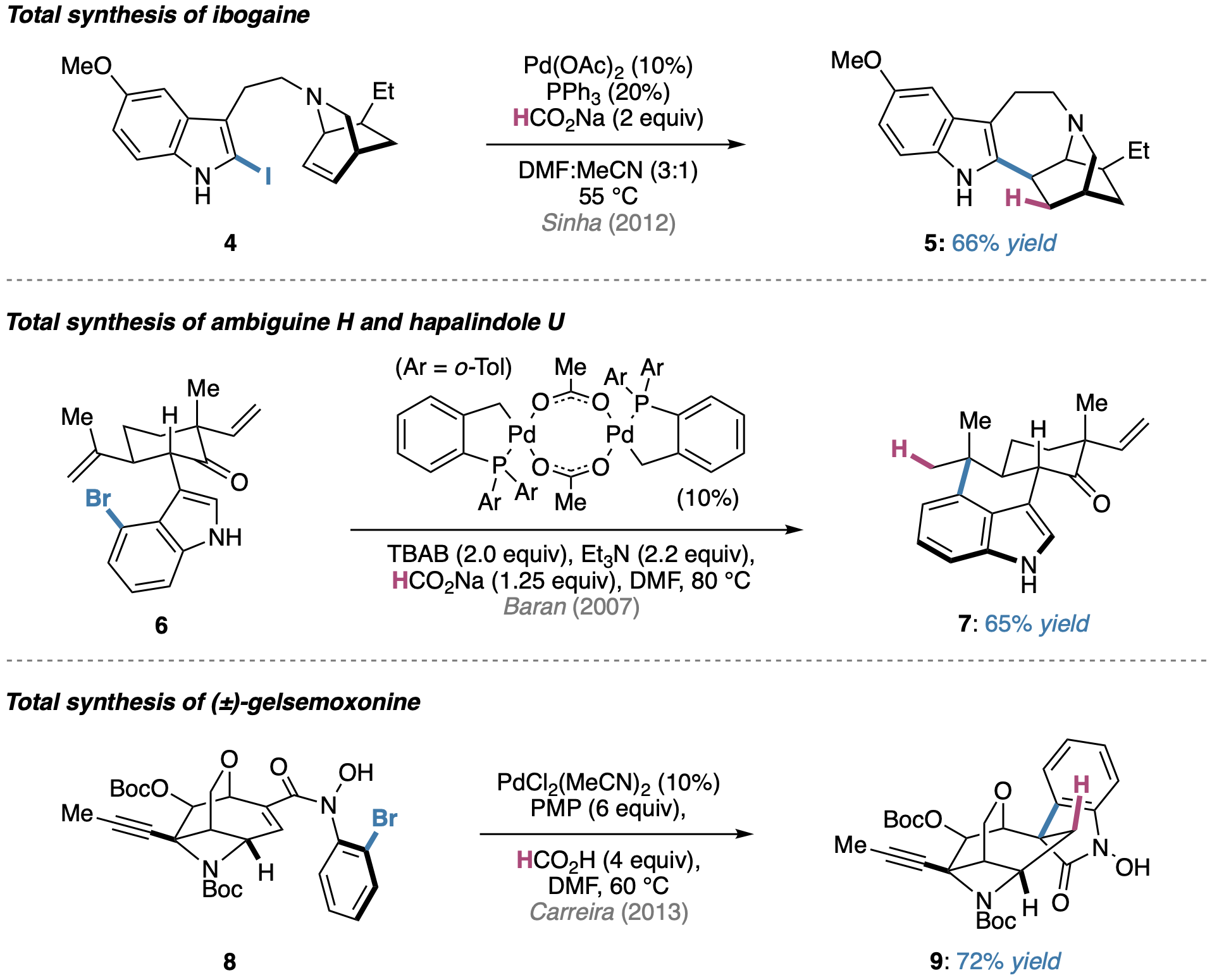 Application of the reductive Heck reaction in the total syntheses of ibogaine, ambiguine H, hapalindole U, and (±)-gelsemoxonine.